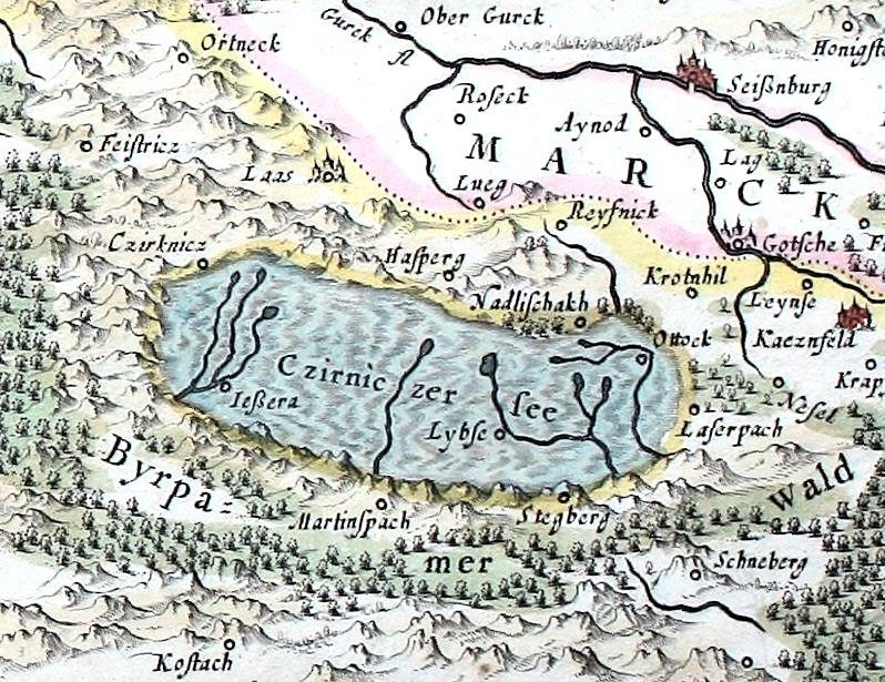 Lake Cerknica in the Geographia Blaviana